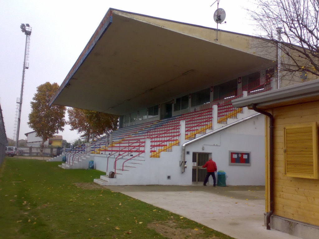 South stage view. "Renzo Tizian" stadium, San Bonifacio (VR) - Italy